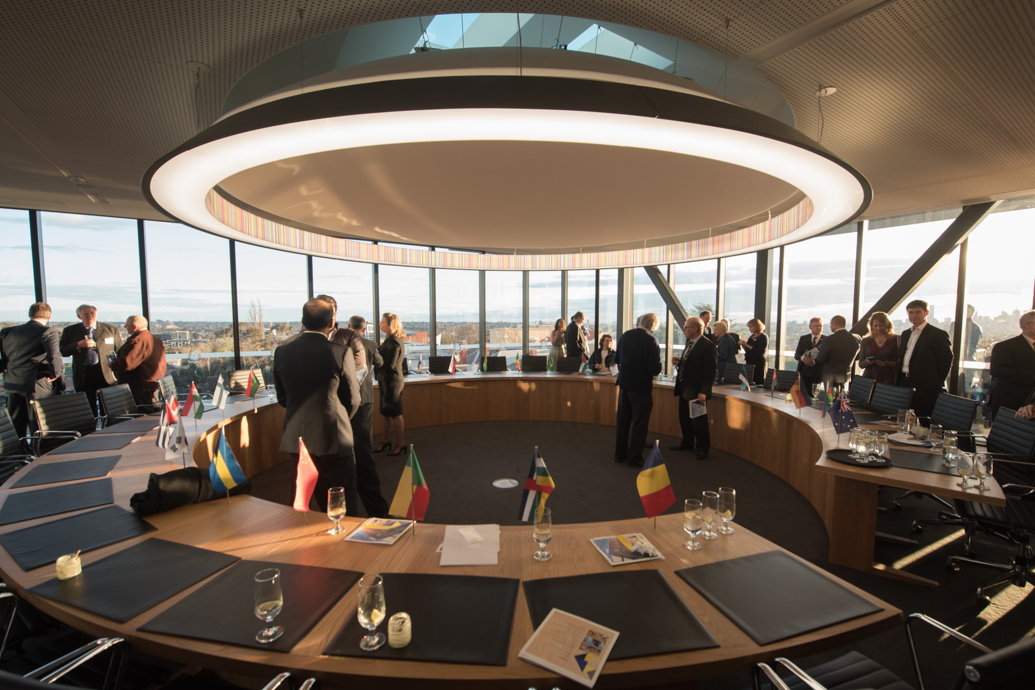 A photograph from inside the UN Room at Carey Baptist Grammar School, Kew, Australia. This was taken at the CLI's grand opening.